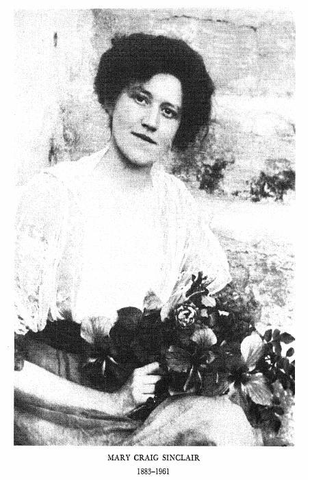 Photograph of Mary Craig Sinclair.